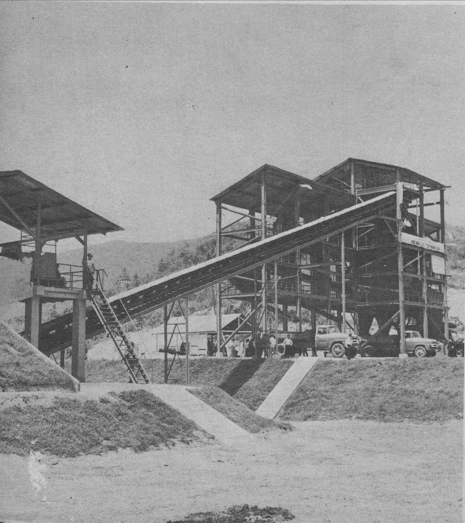 Development of the Nong-son mines in Quang-nam Province